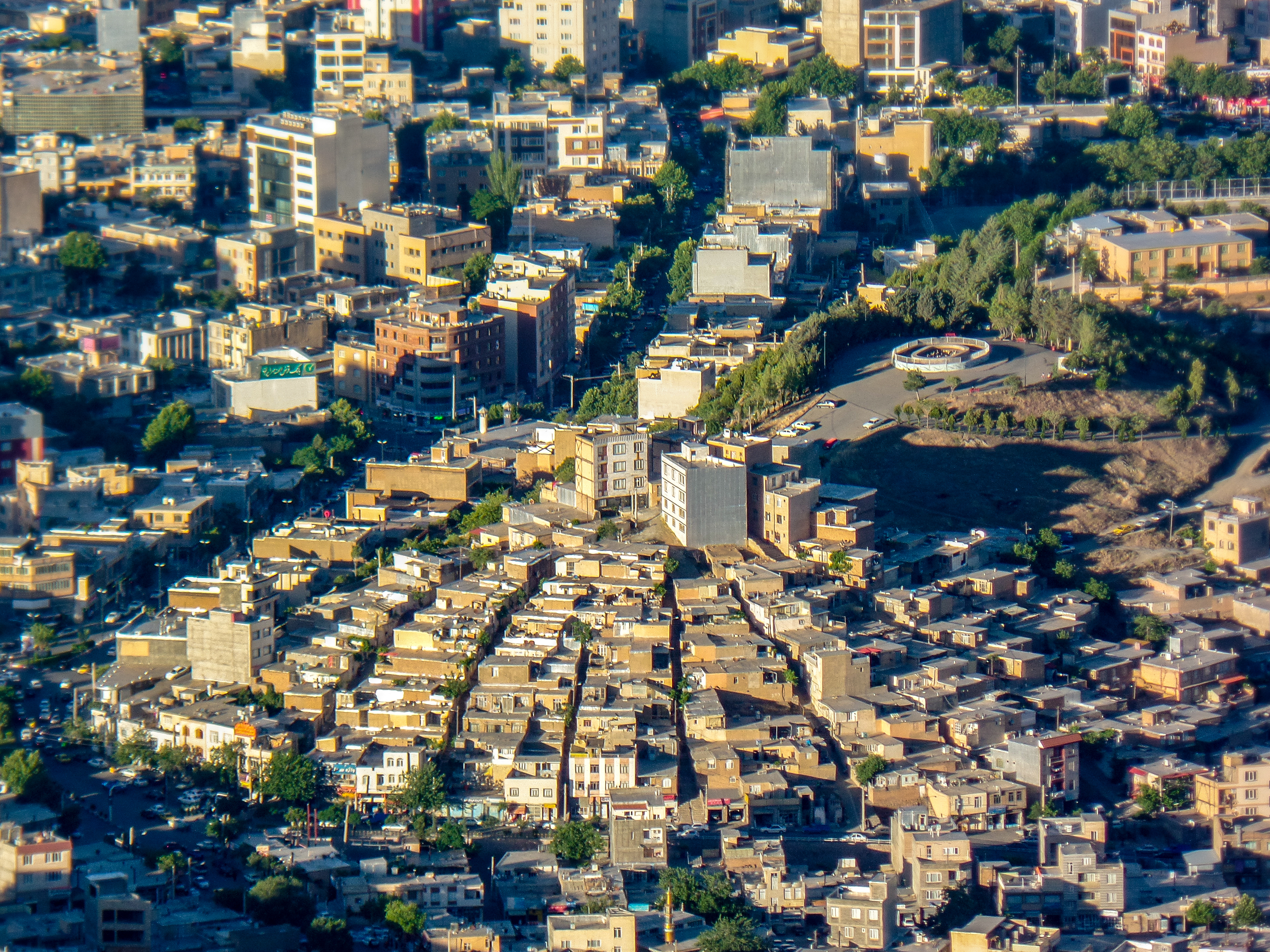 نمایی از تپه زورآباد سنندج